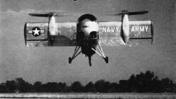 The Vertol (later Boeing Vertol) VZ-2 (or Model 76) experimental plane in flight. It was a research aircraft built in the United States in 1957 to investigate the tiltwing approach to vertical take-off and landing.